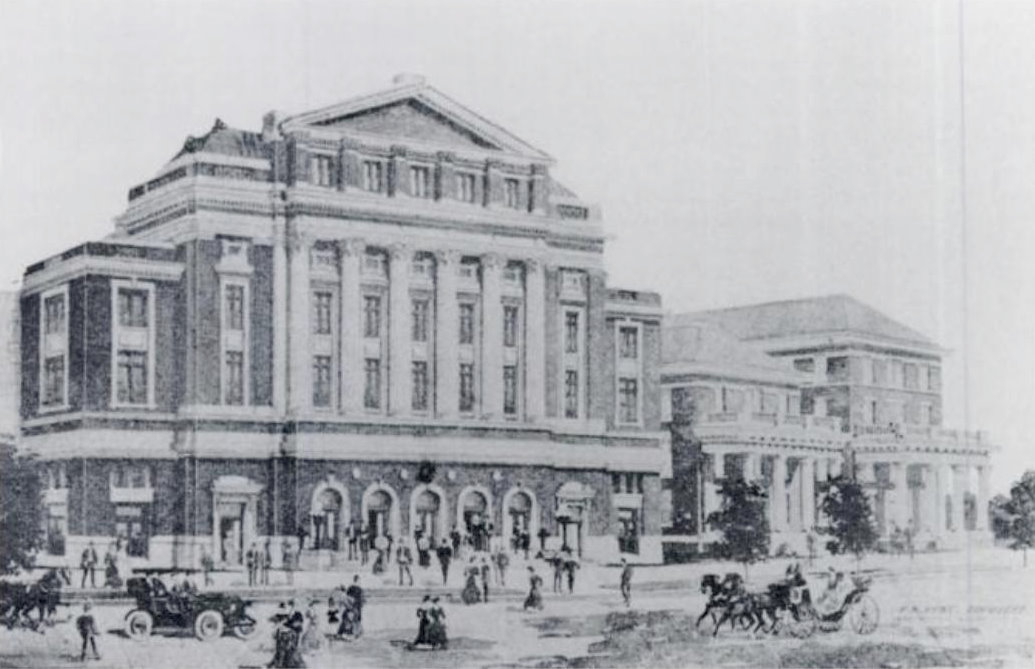 Architect's rendering of the (then) proposed new church building for Baptist Tabernacle in Atlanta, Georgia located at 152 Luckie Street.